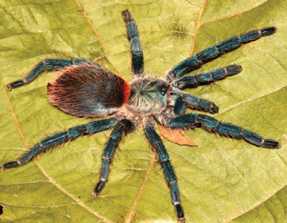 Dolichothele diamantinensis paratype female (MZSP 29073)